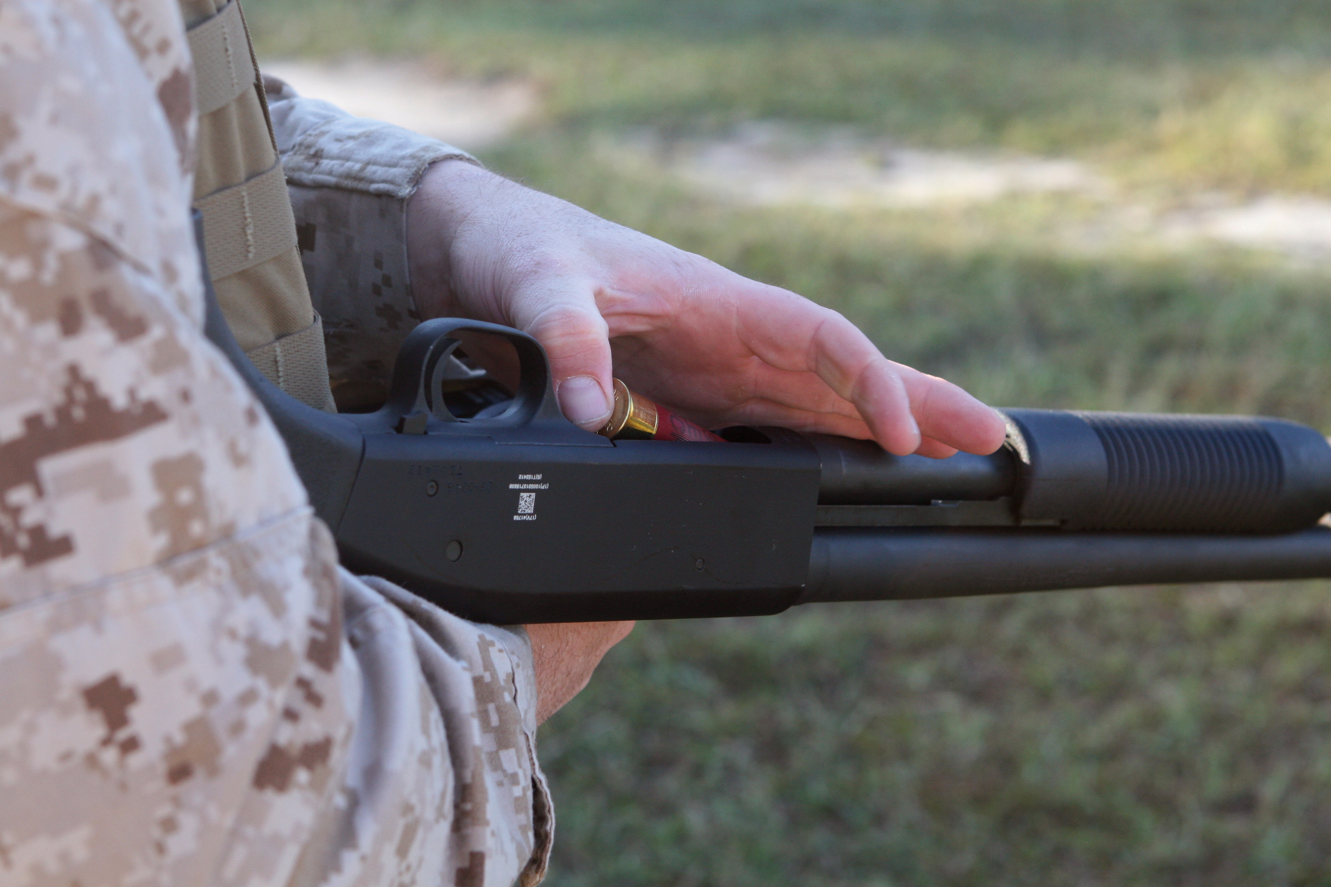 Cpl. Brandon J. Mills, a training non-commissioned officer with Marine Wing Support Squadron 272, reloads his shotgun during a training event preparing guards of ammunition supply points for Enhanced Mojave Viper, Nov. 5.